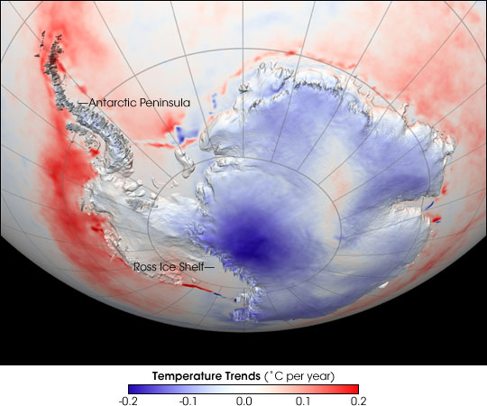 This image shows trends in skin temperatures—temperatures from roughly the top millimeter of the land or sea surface—of Antarctica from 1982 to 2004.